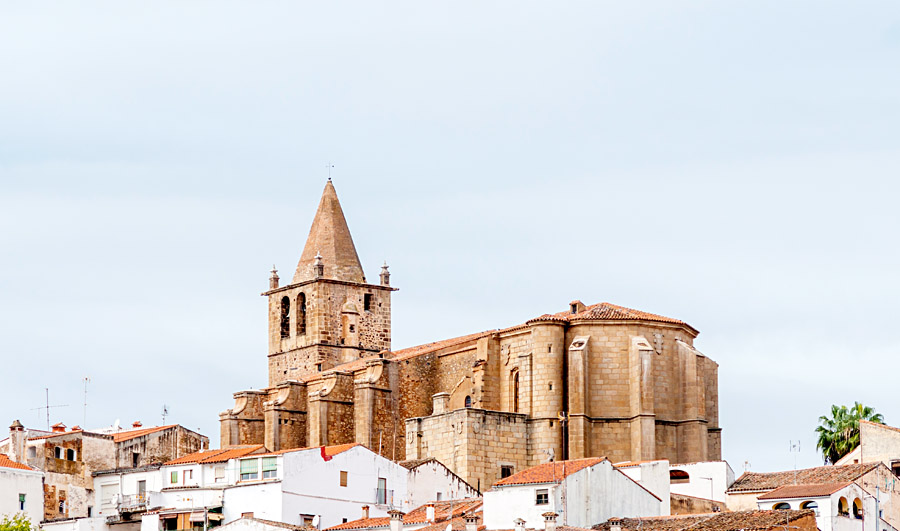 Iglesia de Santiago de los Caballeros. Ciudad de Cáceres. Extremadura. España.